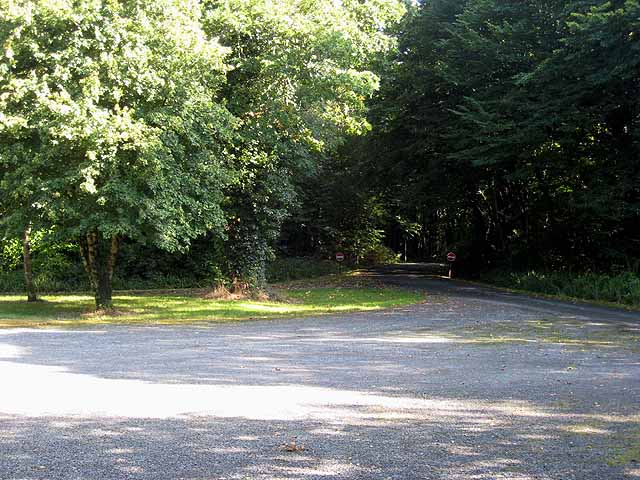 Entrance to the Forest car park at Florence Court Florence Court Demesne is an 18th century stately home in the ownership of the National Trust There are a number of walks and longer forest trails within the grounds.